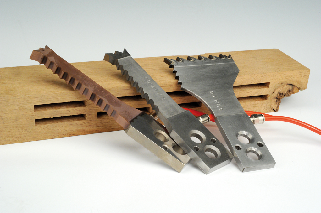 Mortise chisel